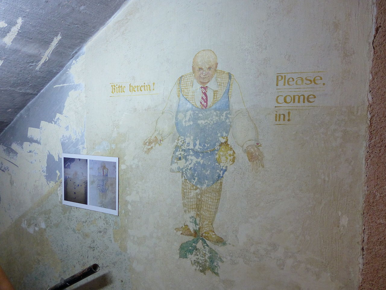 Wall paintings restoration process